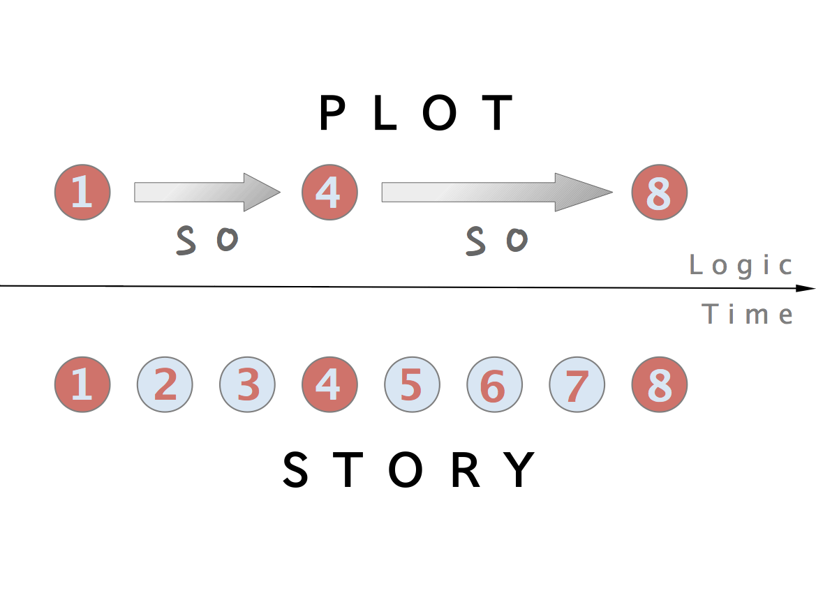 The difference between plot and story. Plot is cause and effect.